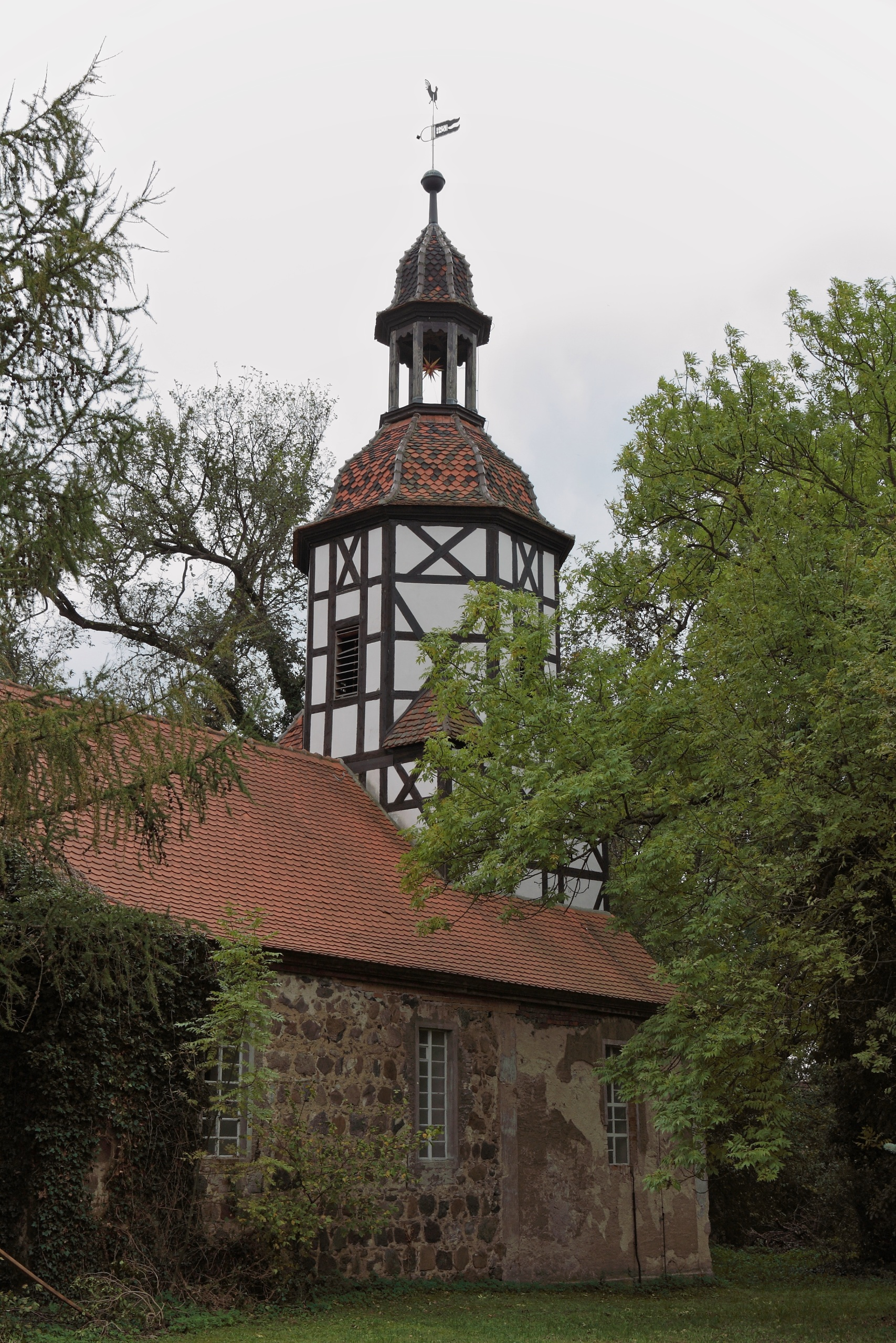 Church of Stolzenhain